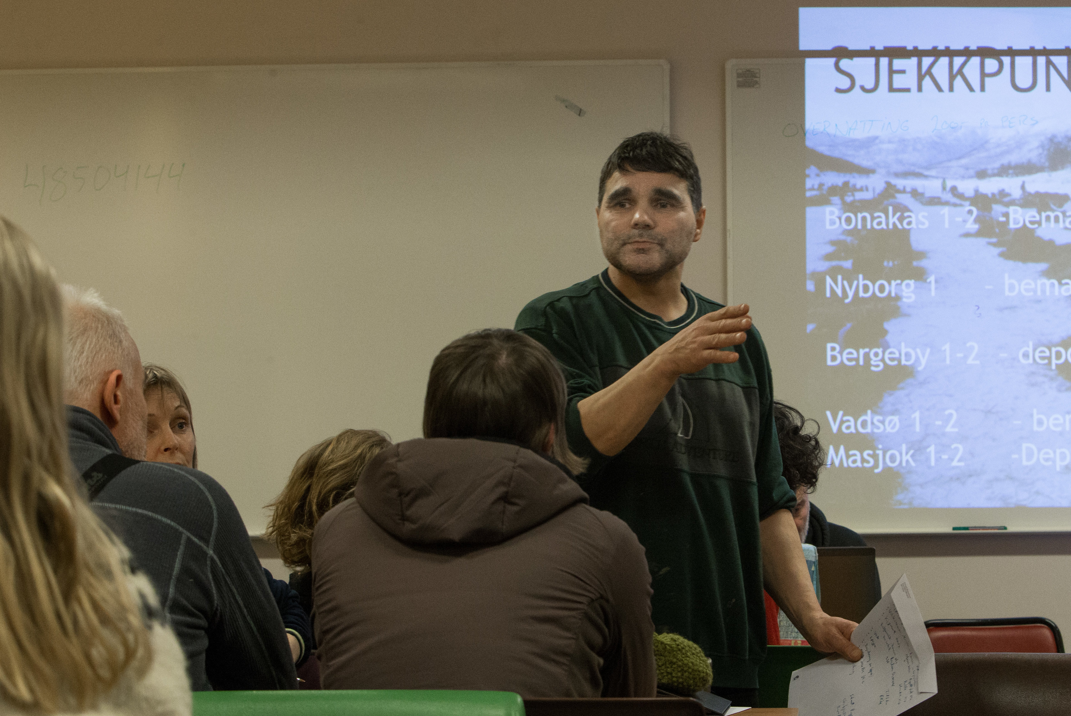 Kjøremøte på militærbrakka - Nesseby, NORWAY, January 30. 2017 - Bergebyløpet N70 ©Samuel Bay/VTHK